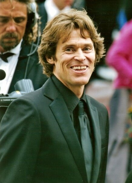 Willem Dafoe at the Cannes film festival